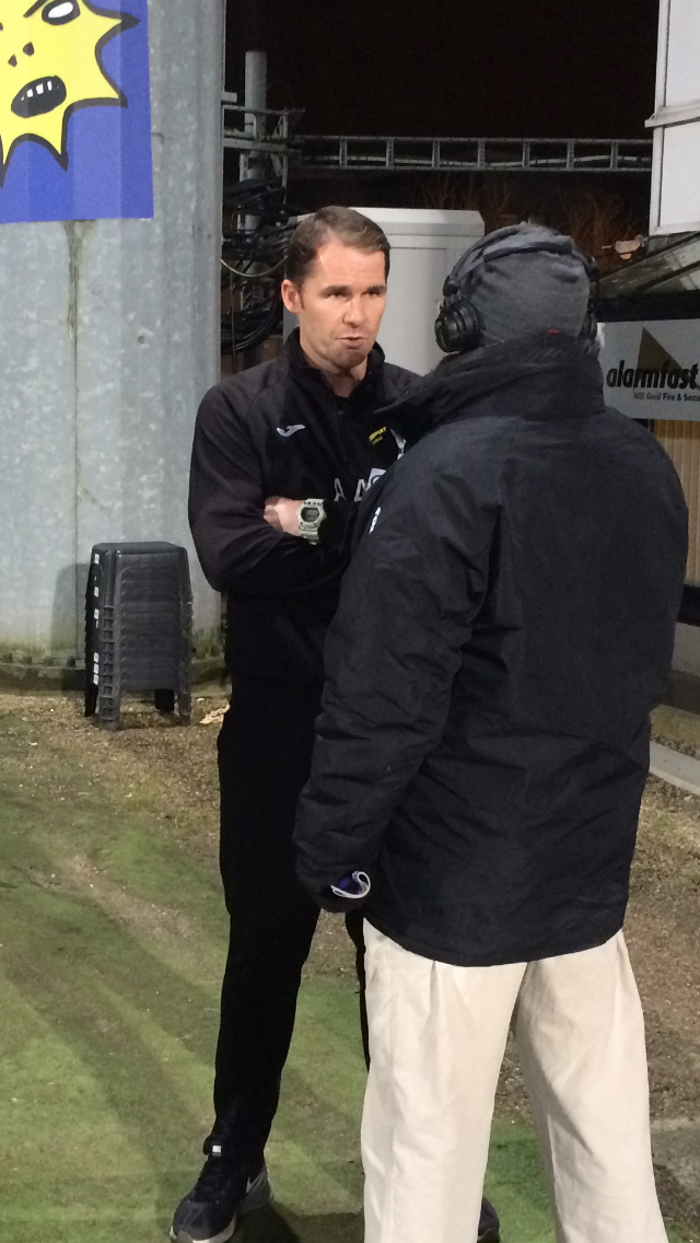 Partick Thistle manager Alan Archibald is interviewed by Chick Young of the BBC.